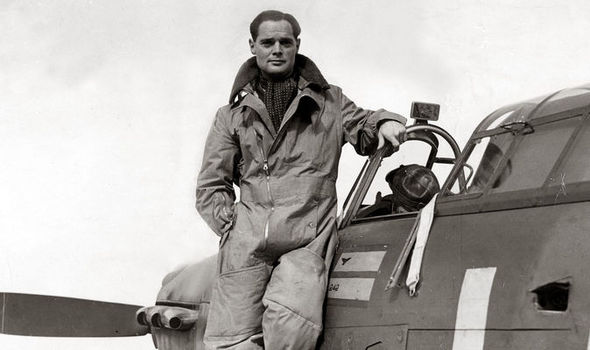 This image is a digitized photograph of Group Captain Sir Douglas Robert Steuart Bader. The image was taken from and the caption reads: "Douglas Bader stands on the wing of his Hurricane, as Commanding Officer of No.242 Squadron.". Douglas Barden was posted to command No. 242 Squadron RAF as Squadron Leader on 28 June 1940; forced to bail out over German-occupied France, he was captured and spent the rest of the war as a prisoner of war. Therefore, he didn't do any more flight missions for RAF, and so the photograph is more than 50 years old, being now in the public domain.